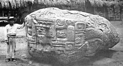 Quirigua, Guatemala: Zoomorph B, after Maudslay, 1902